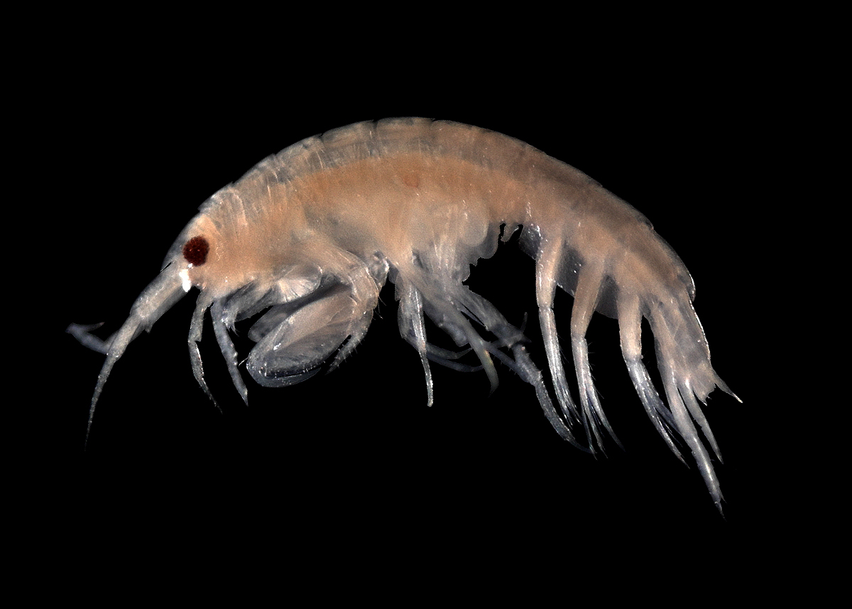 Amphipod with two antennae of near equal length and large gnathopods. Sampled on fine-grained sediments on the Belgian Continental Shelf. Geo-location not applicable as the picture was later taken in the lab.Picture taken with a camera mounted on a Zeiss Stemi C-2000 binocular microscopeLength: ~5 mm